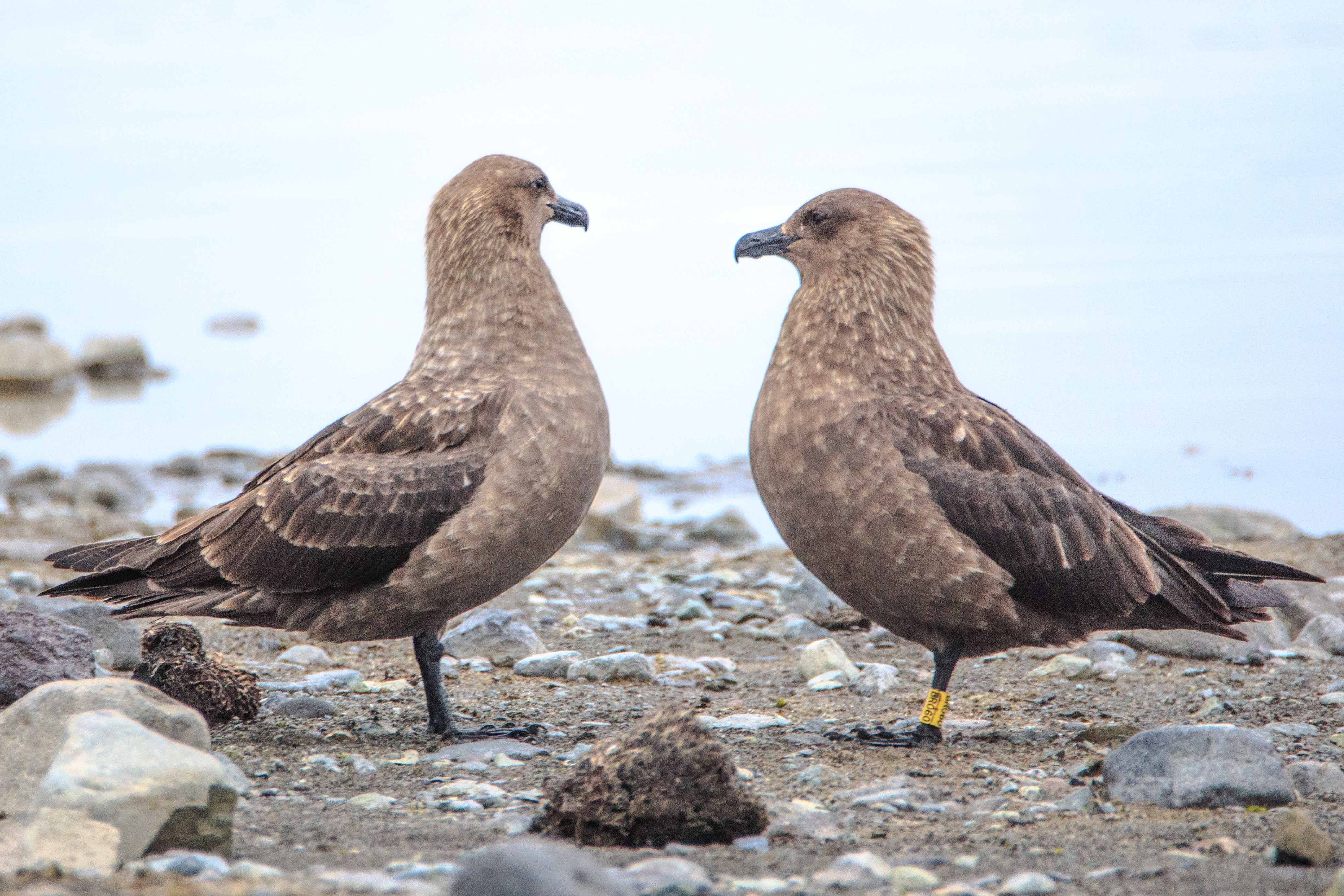 due to a fast crossing of the Drake passage, we have a bonus landing at Turret Point on the S shore of King George Island...Great (Brown?) Skua (Catharacta antarctica)...elaborate courtship & mating rituals...